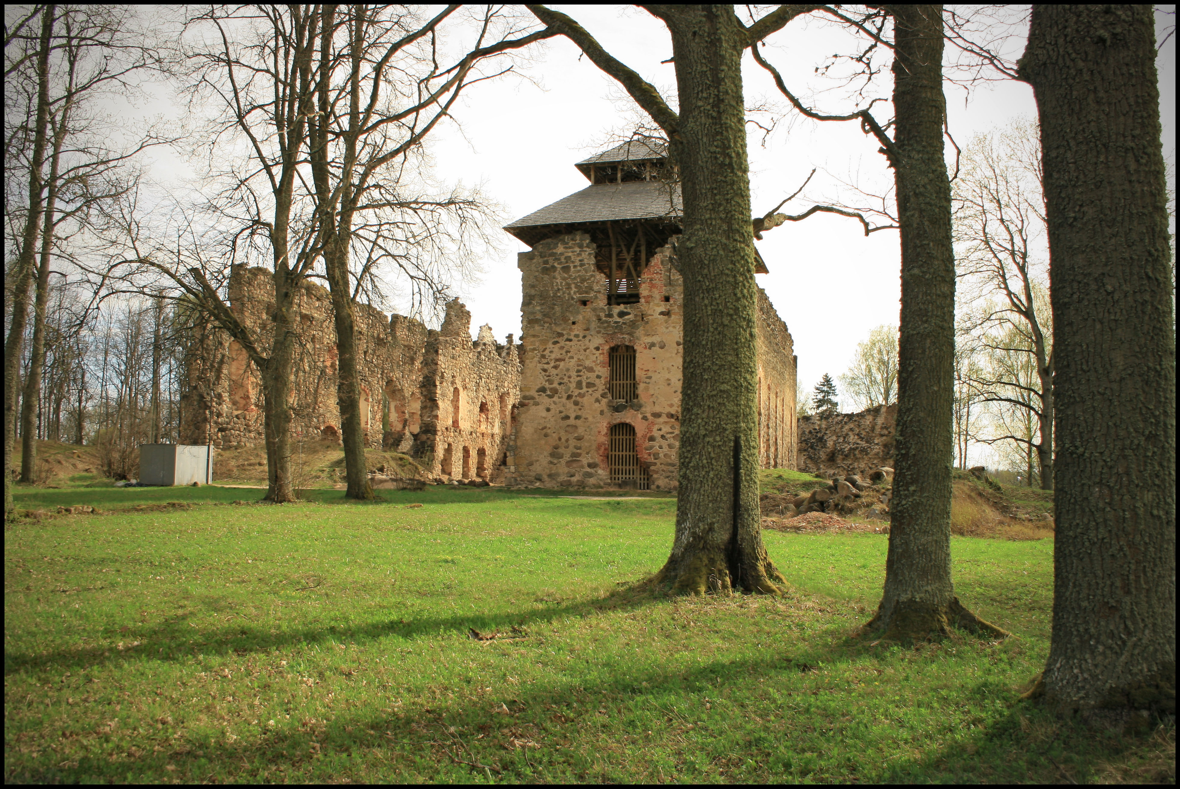 Rauna Castle ruinsLatviešu: Raunas pilsdrupas